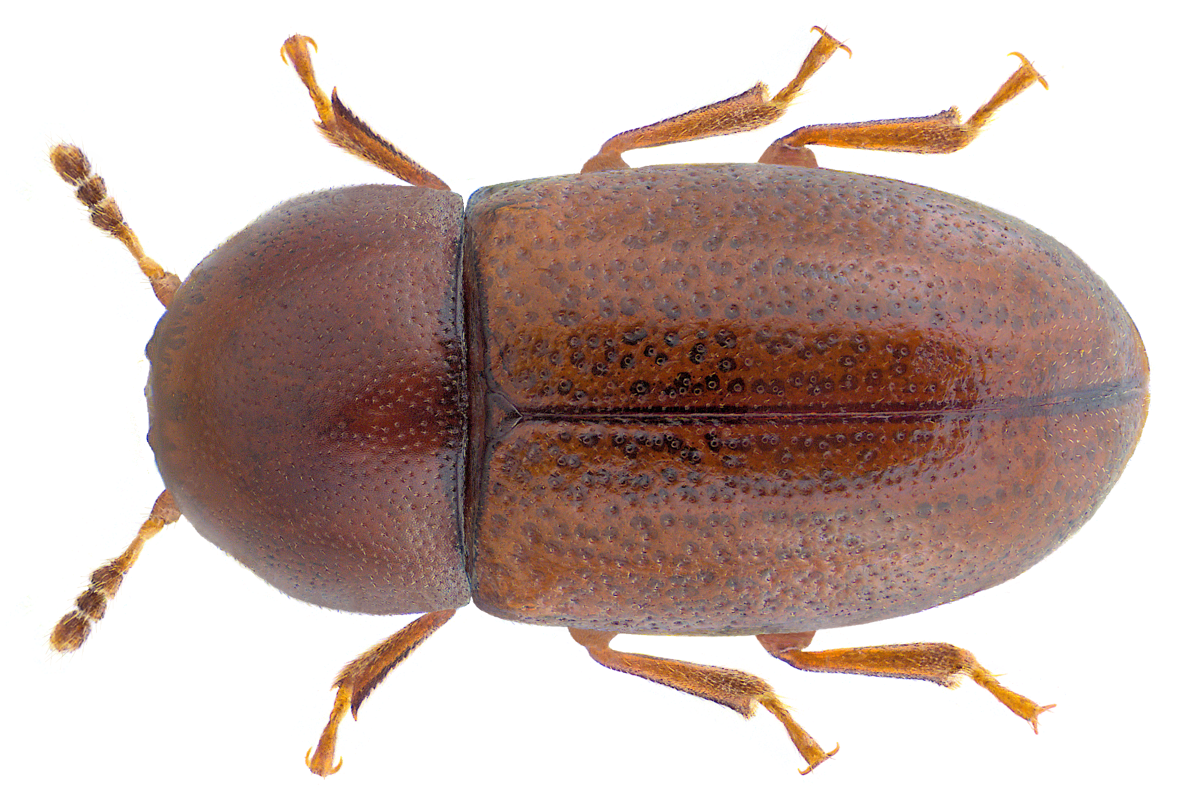 Family: Ciidae (Cisidae) Size: 2.1 mm (1.5 to 2.1 mm) Distribution: Europe Ecology: In hard tree sponges Location: Germany, Bavaria, Upper Franconia, Kulmbach, Blaicher Berg leg.det. U.Schmidt, 29.VII.1975 Photo: U.Schmidt, 2017